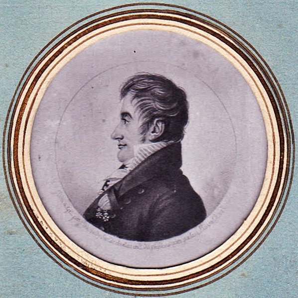 Andreas van Recum (1765-1828), französischer und pfalz-bayerischer Politiker